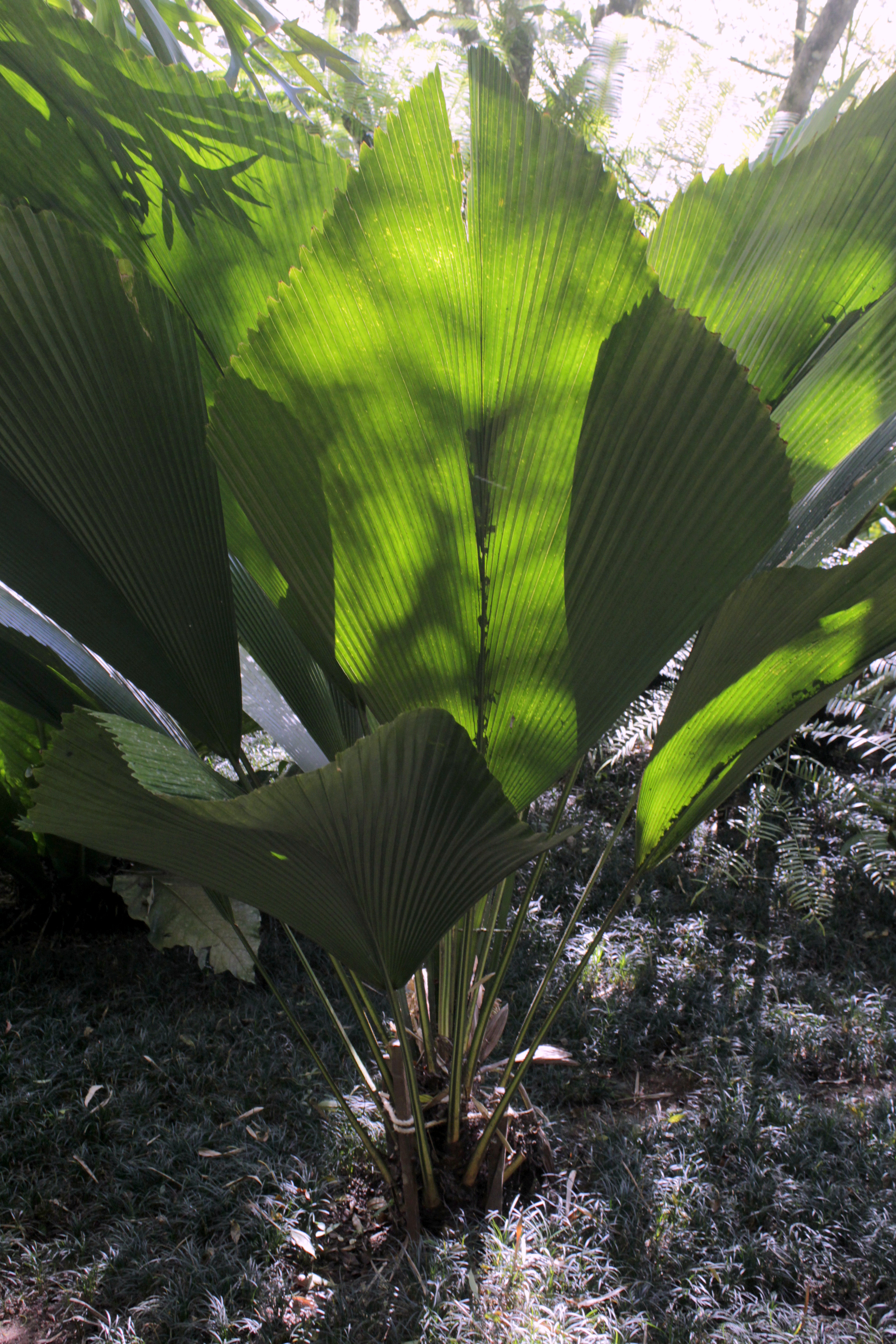 Johannesteijsmannia altifrons at Instituto Inhotim. Brumadinho, Brazil.